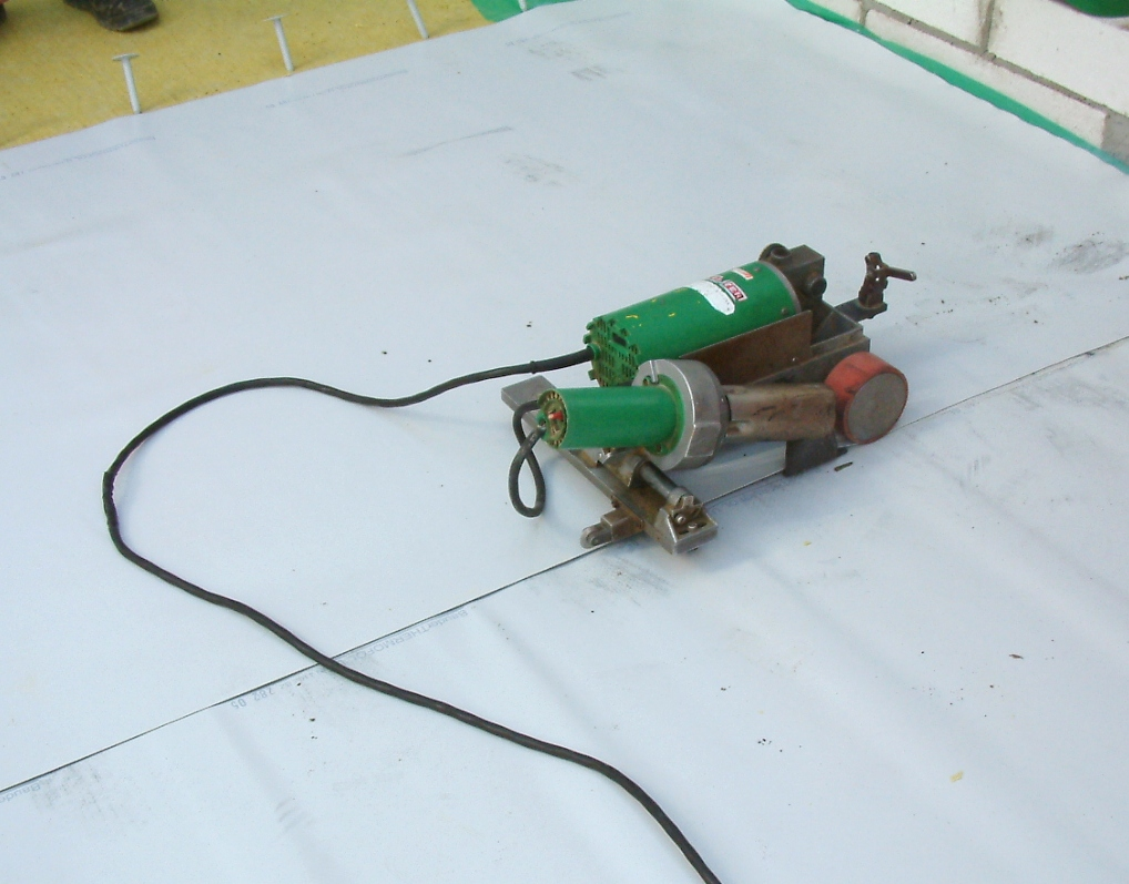 A machine used at roof sealing (flat roof)